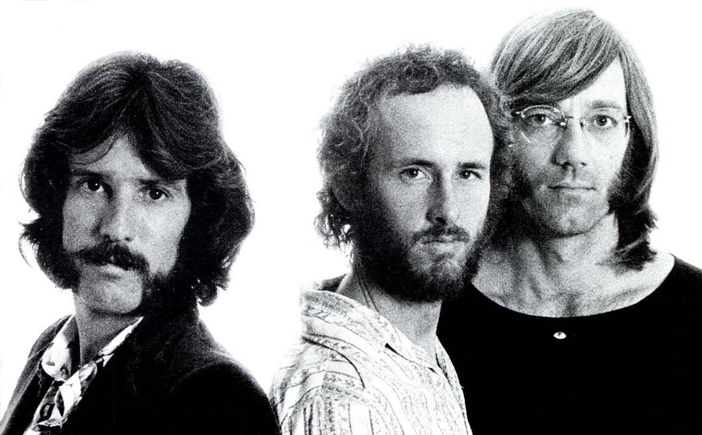 Trade ad for The Doors' album Other Voices.To better adapt it to his respective Wikipedia article, the ad was cropped and cleaned in a graphics editing program. The original can be viewed at the source below.